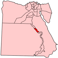 Map of Egypt showing Suhaj (Sohag) governorate. Made by User:Golbez based on PD maps.